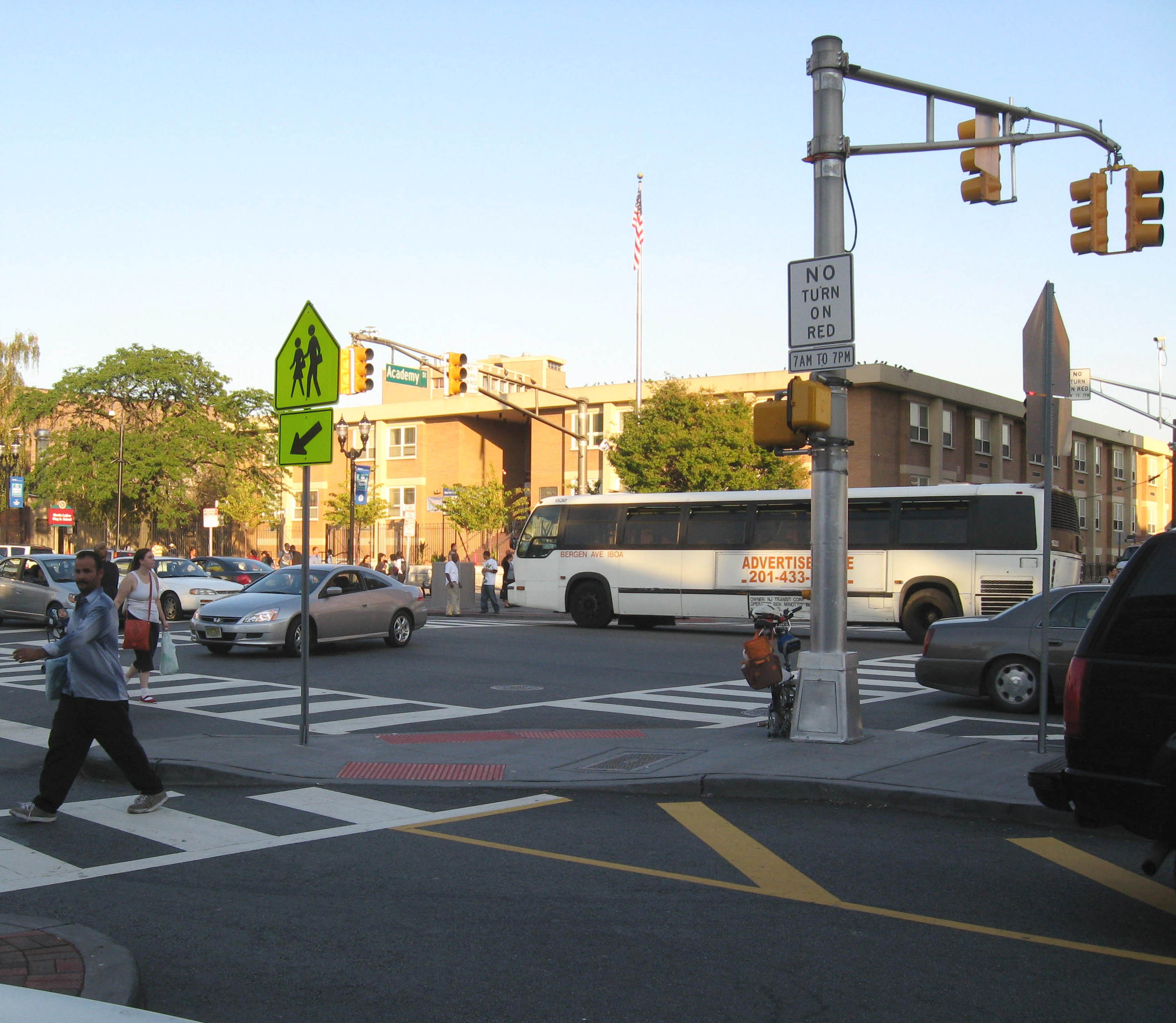 Looking east across Bergen Square at Martin Luther King High School late on a sunny afternoon